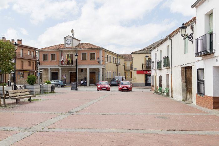 Ayuntamiento